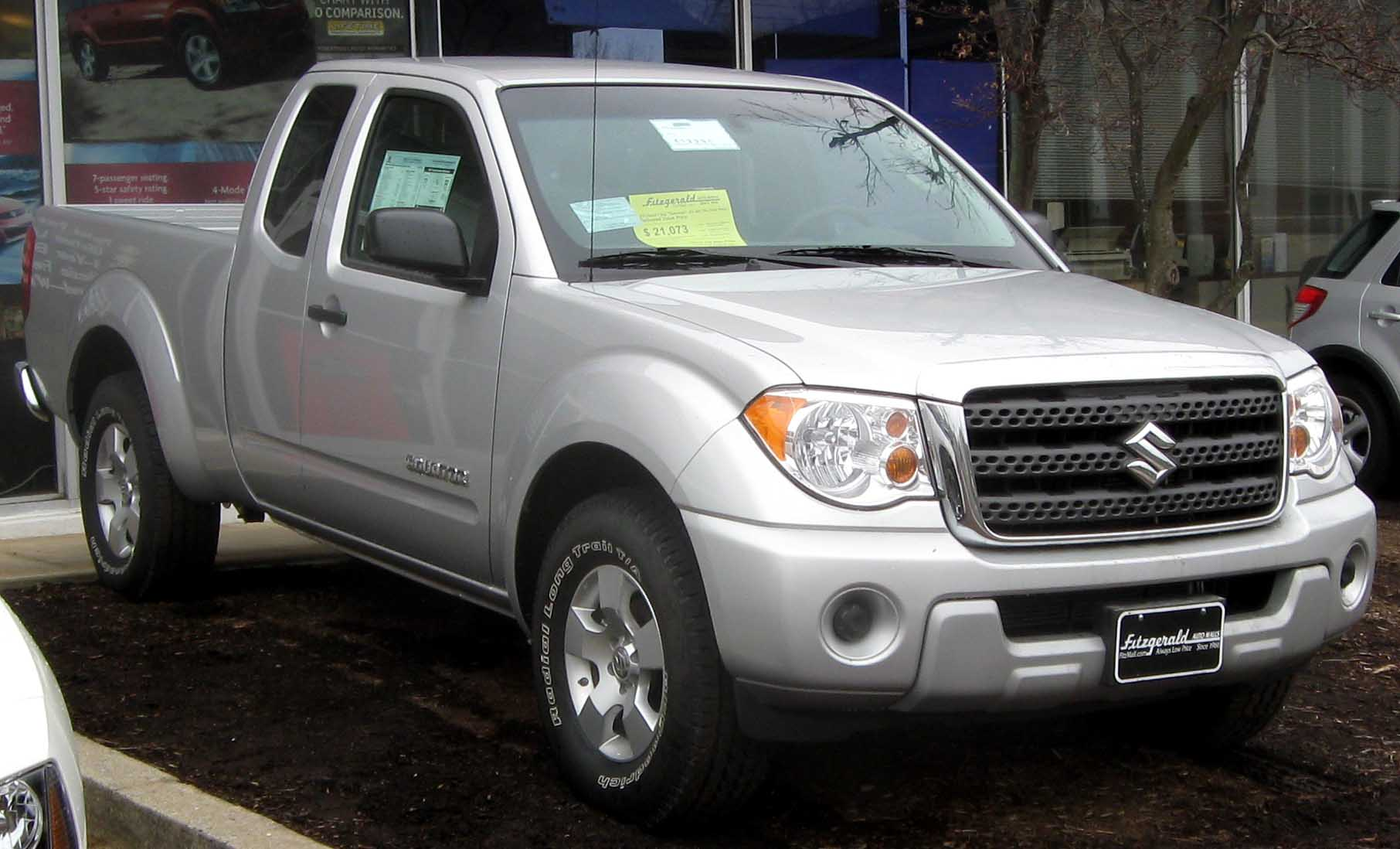 2009 Suzuki Equator photographed in Wheaton, Maryland, USA.